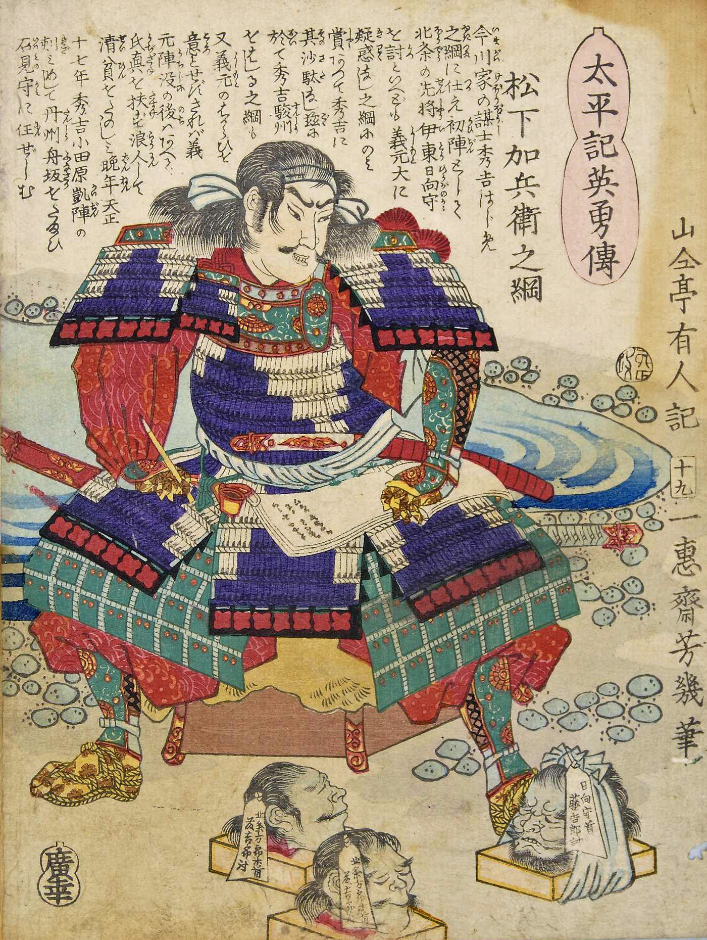 Ukiyo-e of daimyo and samurai Matsushita Yukitsuna.